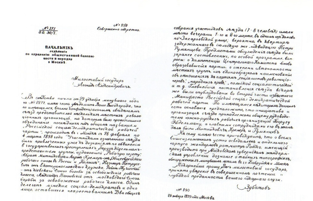 Report produced by the Department for Security to Sergei Zubatov